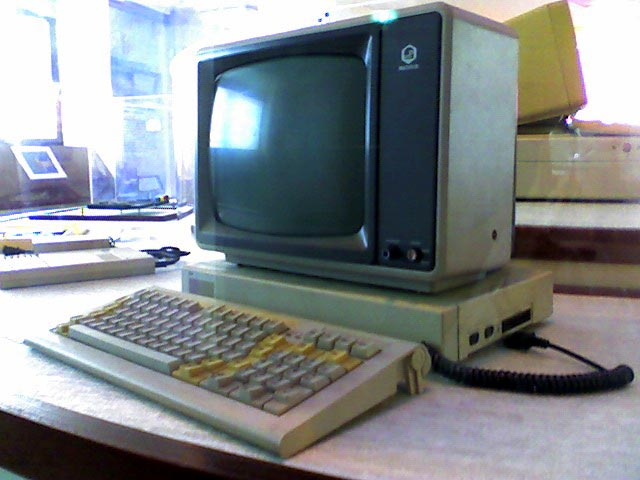 Microprofessor III taken at the National Chiao Tung University, Taiwan by Toytoy 00:25, Jun 26, 2005 (UTC)